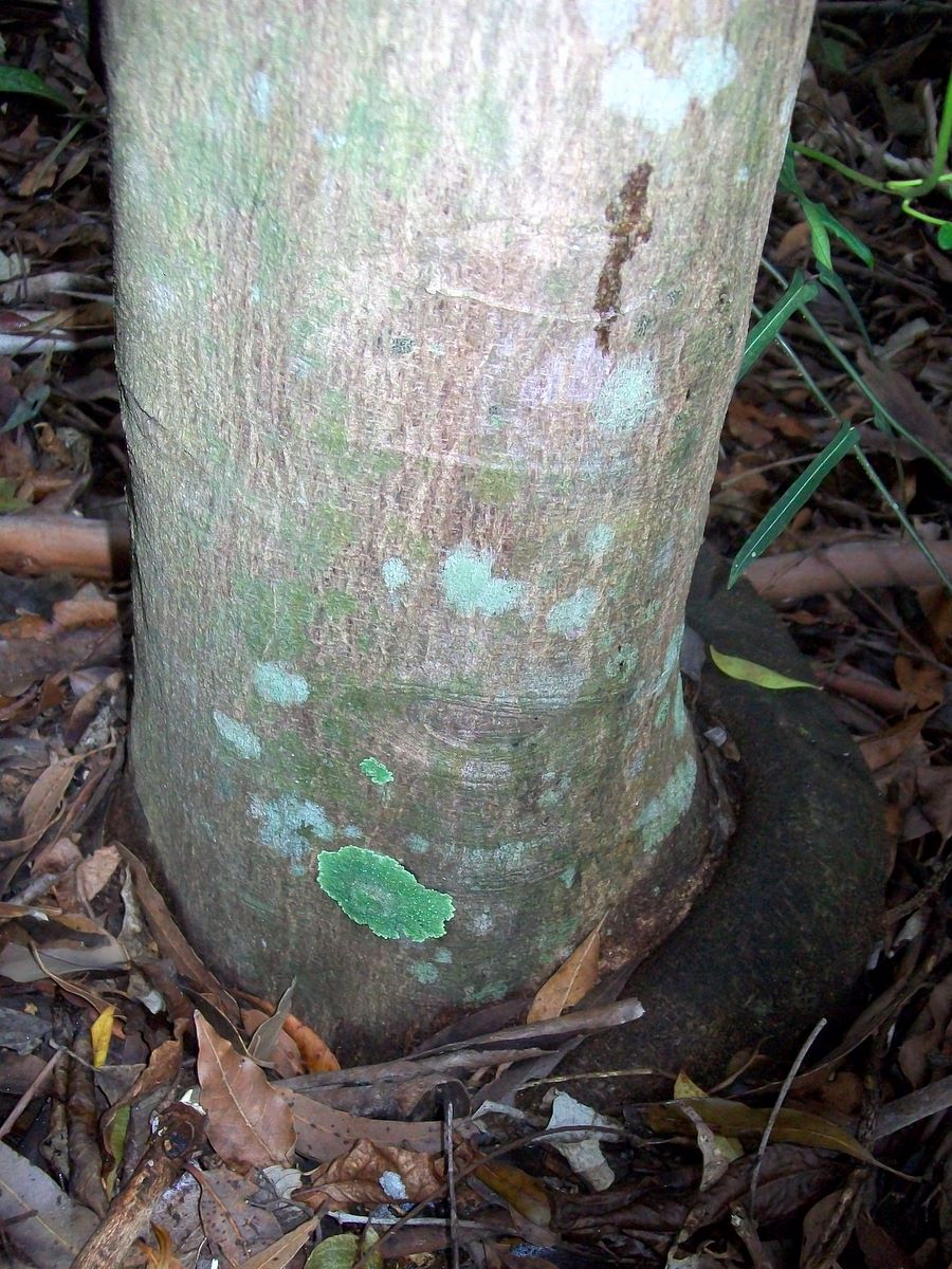 Acronychia suberosa, Coffs Harbour gardens